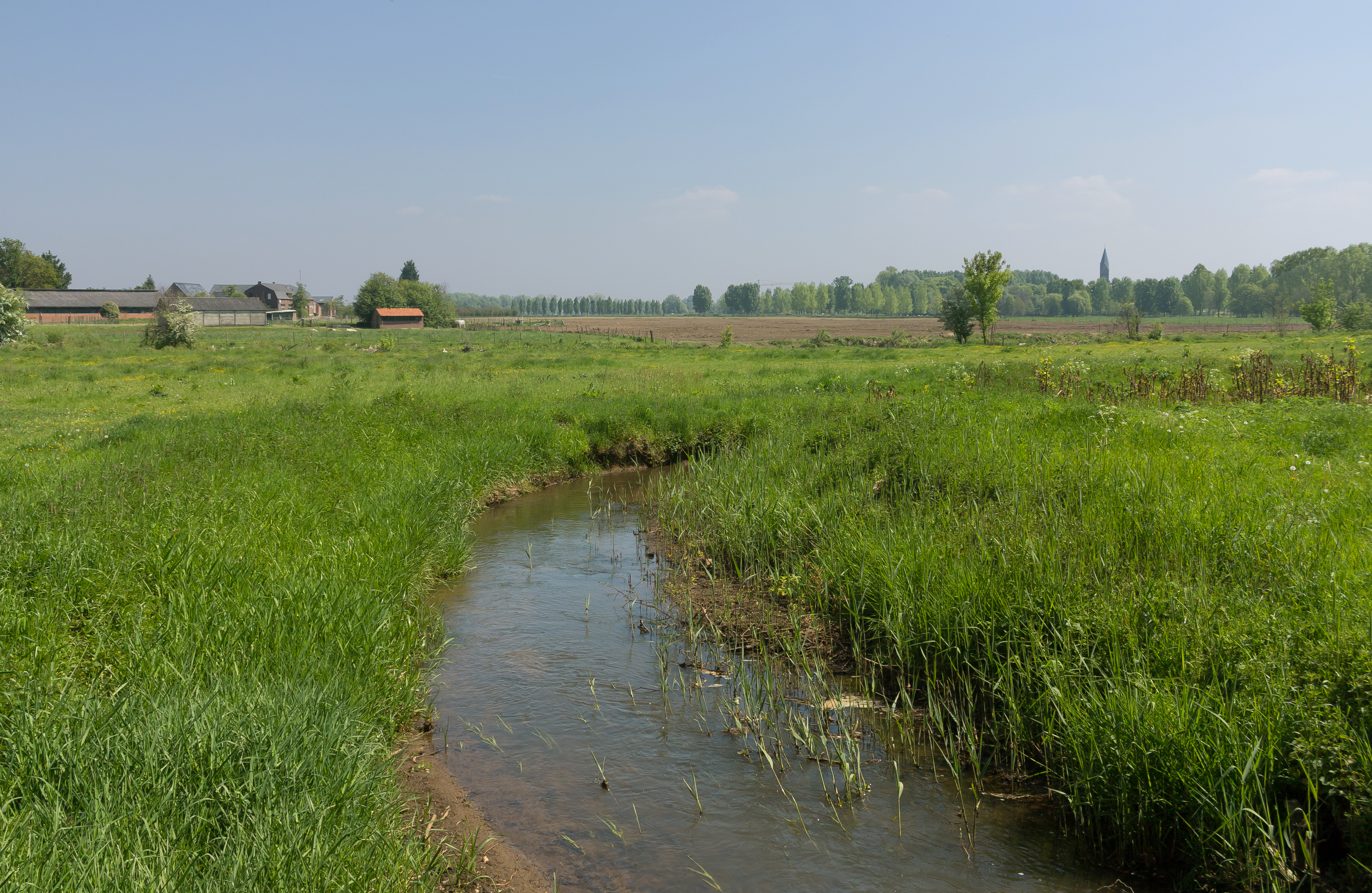 between Linne and Brachterbeek, stream: de Vlootbeek